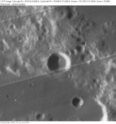 Sabatier lunar crater - image LO-IV-165H LTVT